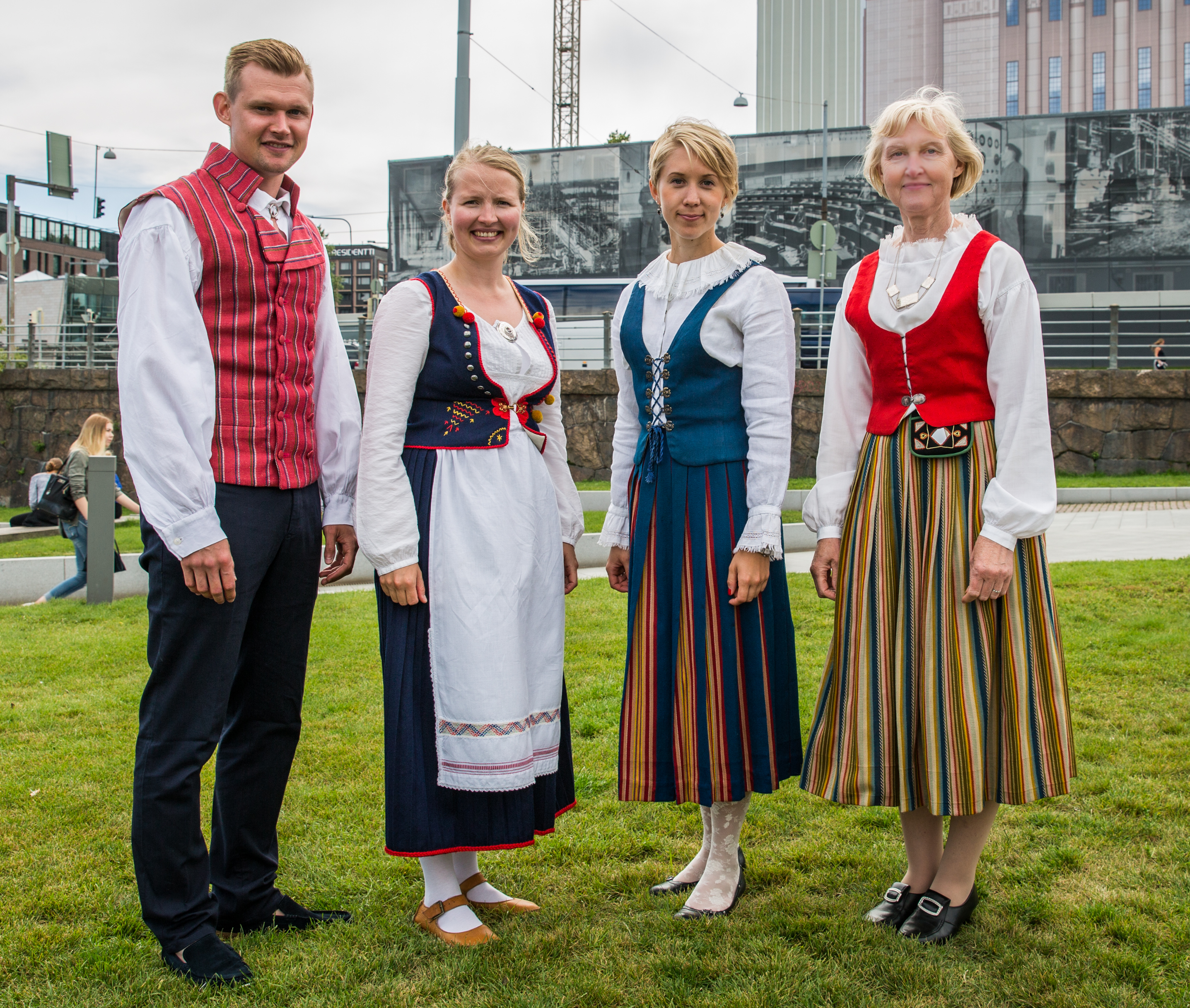 Finnish National Costumes